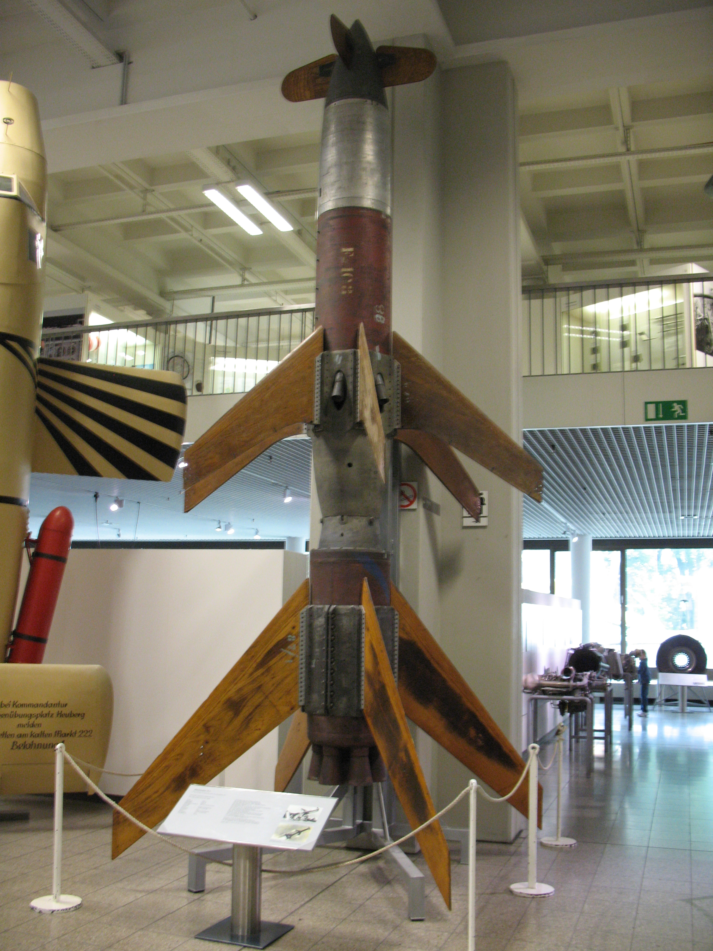 "Rheintochter R1": two-stage guided anti-aircraft missile, Germany, 1944